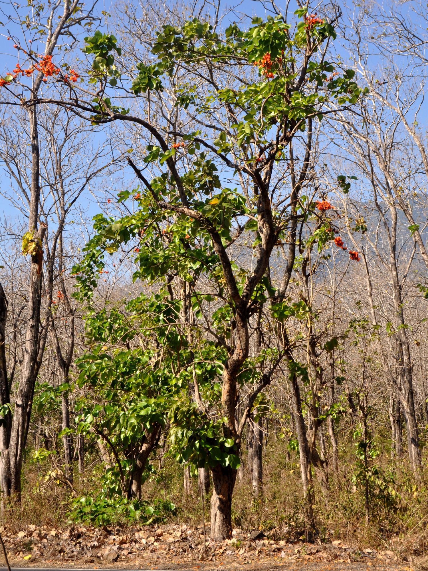 Butea monosperma, habits. Baluran National Park, East Java, Indonesia.